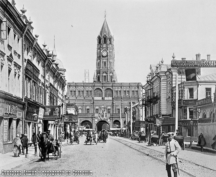 Suharev Tower in Moscow in 1902